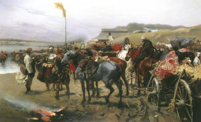 Pospolite ruszenie u brodu, (Militia at the Ford) painting sold on auction in Poland in 1997